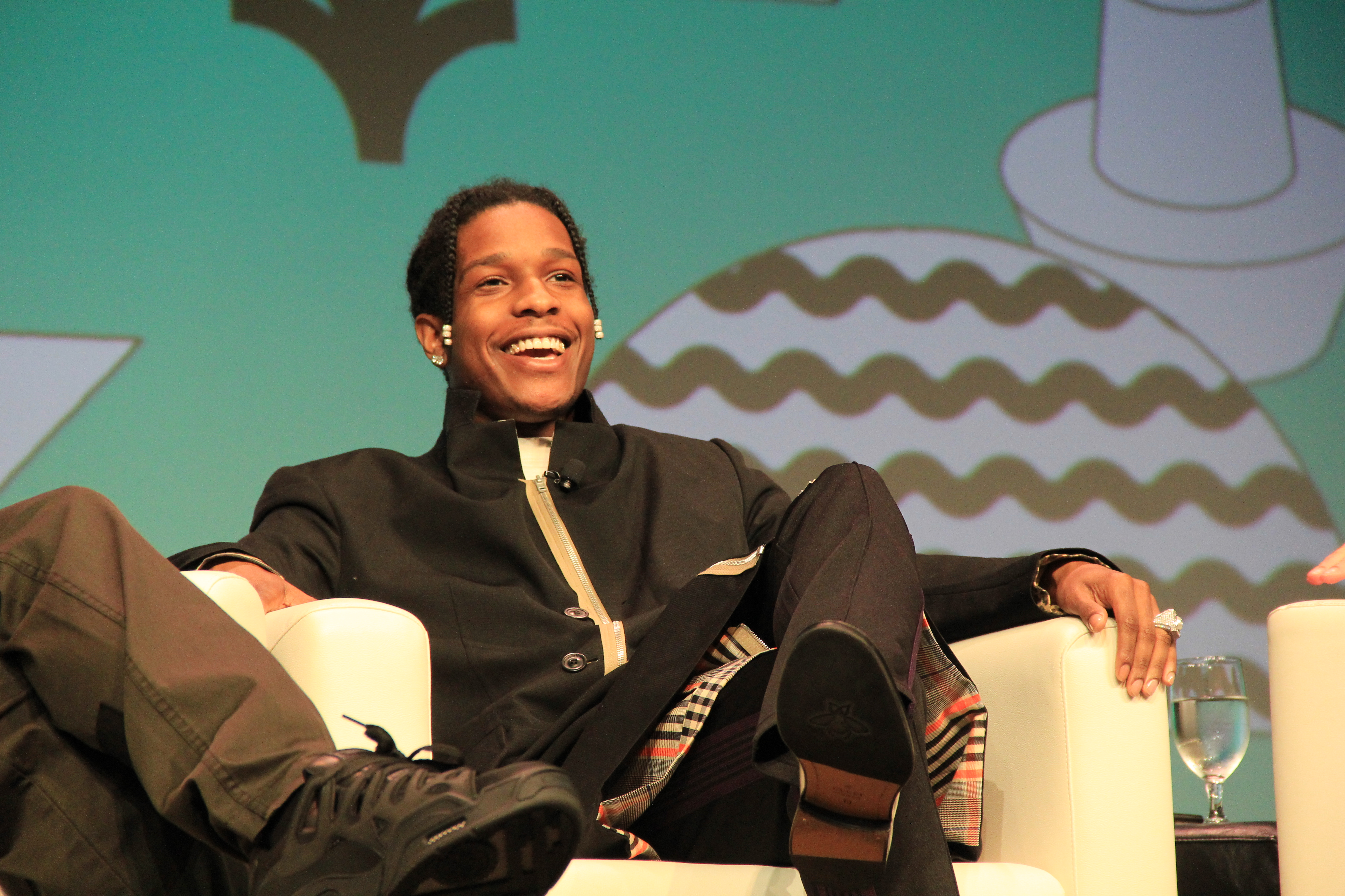 South by Southwest 2019